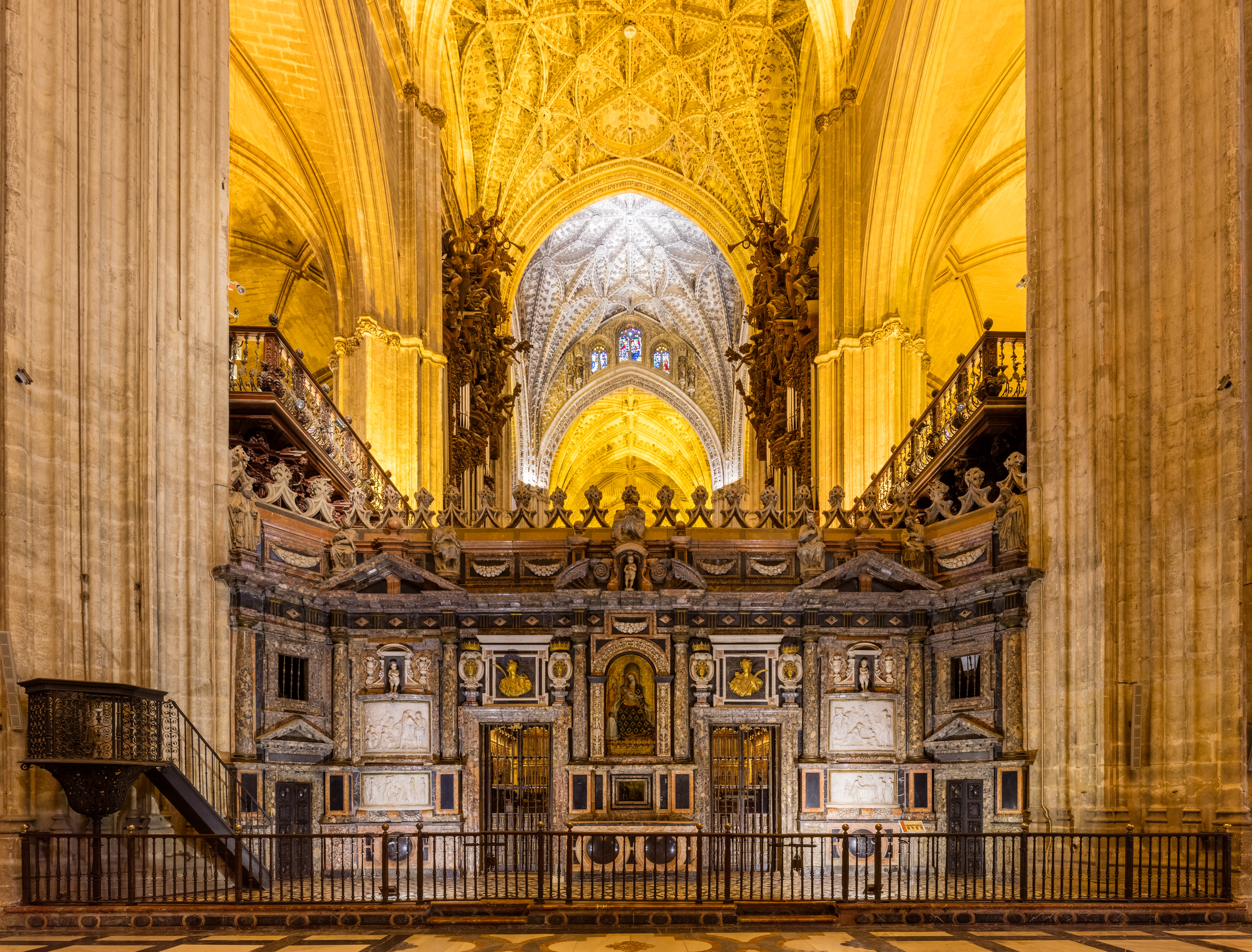 Retrochoir of the Roman Catholic cathedral of Seville, Seville, Spain. This wonderful Baroque style retrochoir is work of Miguel de Zumárraga and was finalized in 1635. It was constructed with precious materials like marmor or jasper and it's decorated with bas-relieves and bronce busts. The gothic painting in the middle shows the Virgin of Los Remedios, very popular in the Reconquista times and still very devoted in Spain. The temple is since 1987 a World Heritage Site according to the UNESCO and is the largest Gothic cathedral and the third-largest church in the world. When it was completed, at the beginning of the 16th century, it became the successor of Hagia Sophia as the largest cathedral in the world, a title the Byzantine church had held for nearly a thousand years. The cathedral is also the burial site of Christopher Columbus.